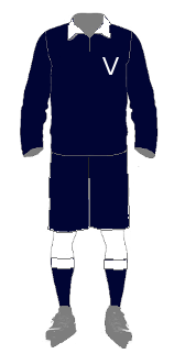 Representation of the 1922 uniform for team Victoria, ice hockey Australia. Other information This is completely my own work, created to provide a representation of uniform worn by the 1922 state team for Victoria - based on old photographs and descriptions of the uniform. Please feel free to share and use this file.